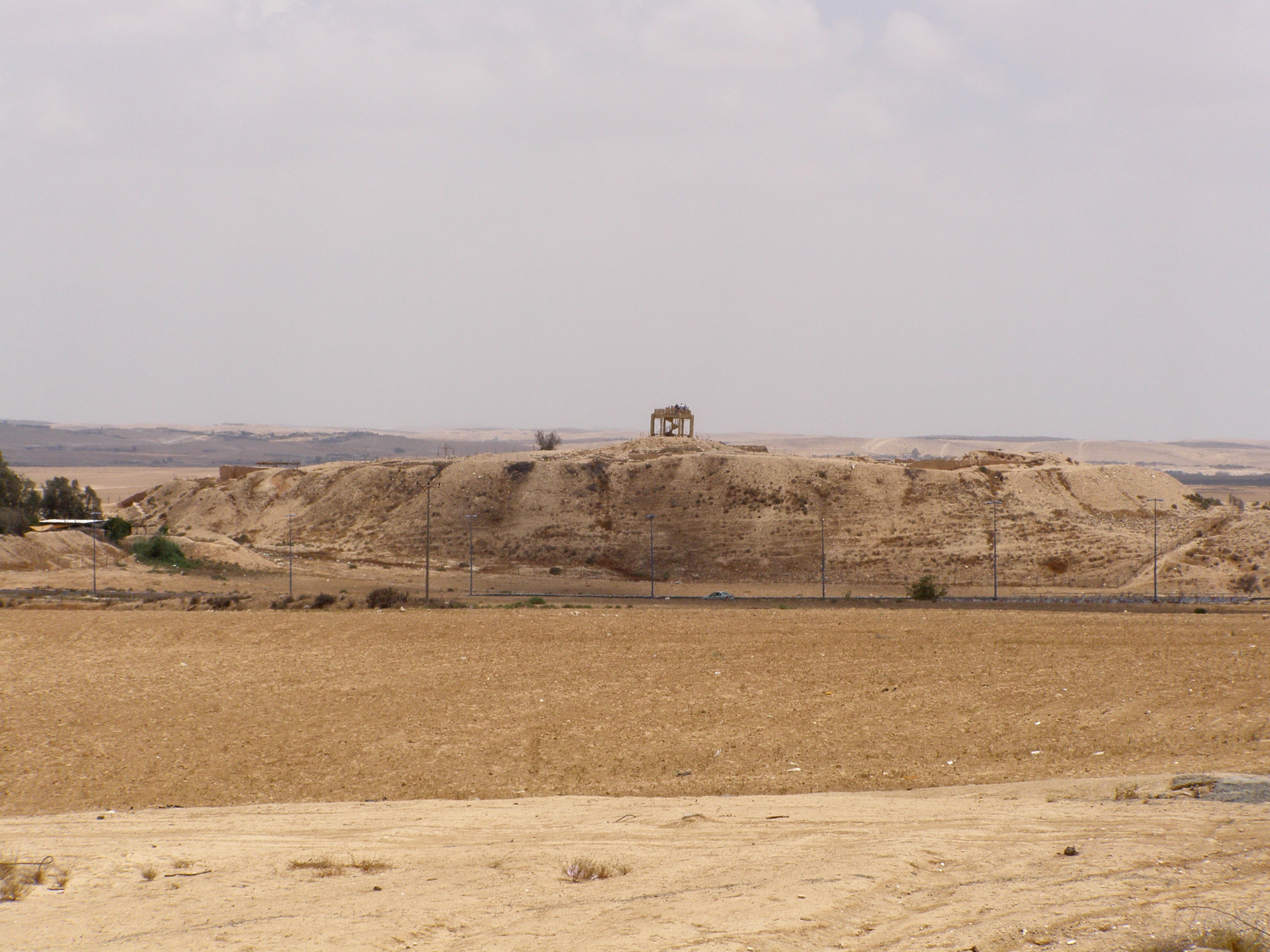 Tel Be'er Sheva